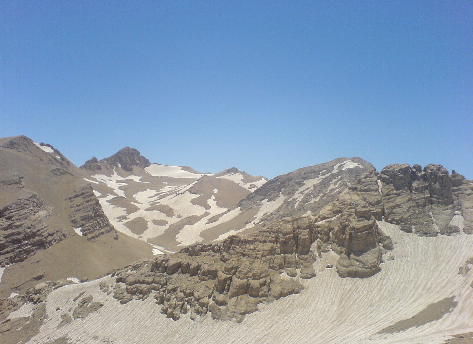 Kolunchin, the highest peak in Zardkuh mountains, in July.